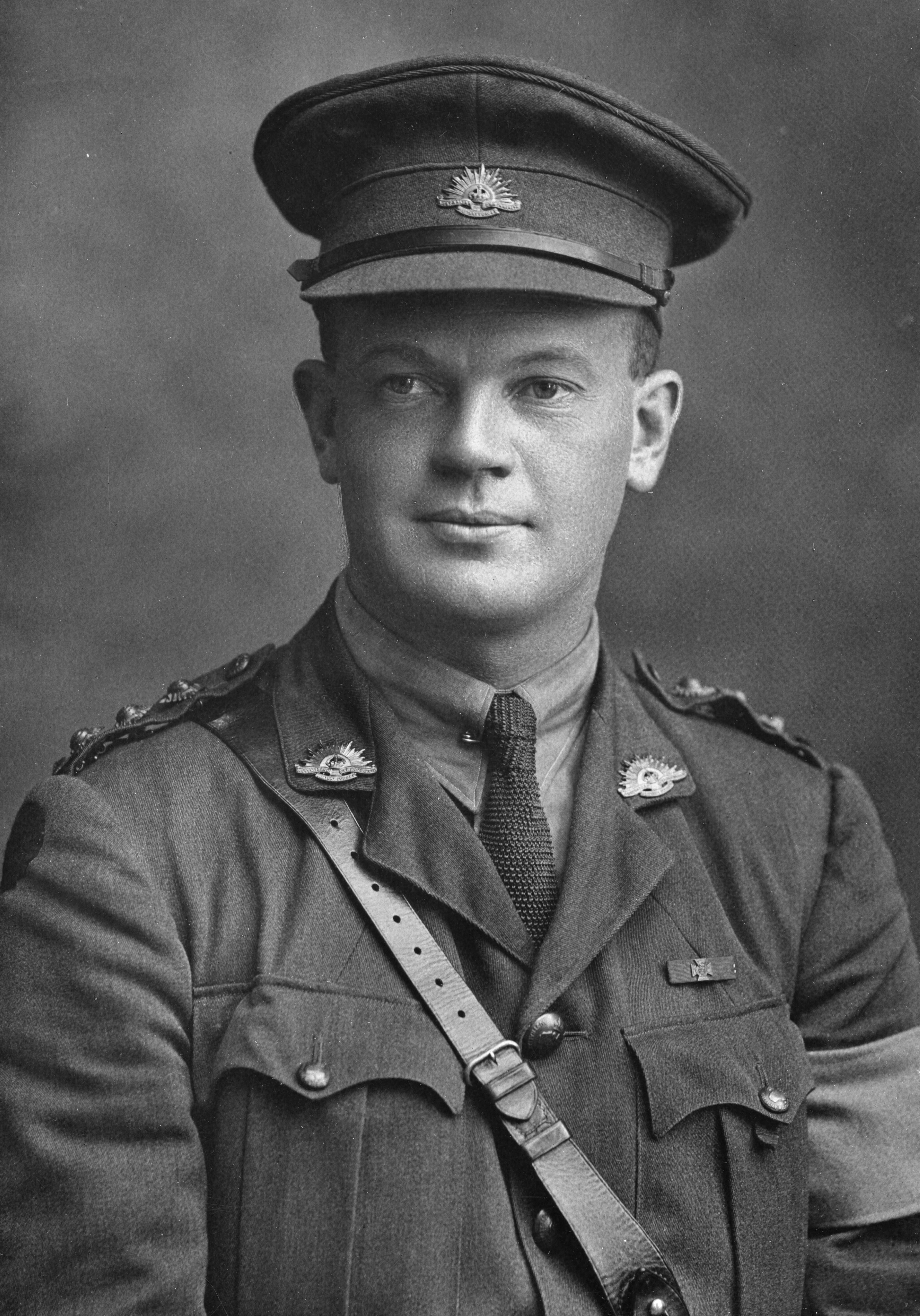 Robert Cuthbert Grieve VC (19 June 1889 – 4 October 1957) ID Number: H00038 Place made: United Kingdom Physical description: Black & white Summary: Studio portrait of Captain Robert Cuthbert Grieve VC 37th Battalion of Brighton Vic. A warehouseman prior to his enlistment on 23 February 1916 he embarked from Melbourne on Board HMAT Persic on 2 June 1916 and returned to Australia on 8 April 1918. Grieve is wearing a hospital blue armband on his left arm denoting that he was wounded at the time of this photograph. Copyright: Copyright expired - public domain Copyright holder: Copyright Expired Related conflict: First World War, 1914-1918